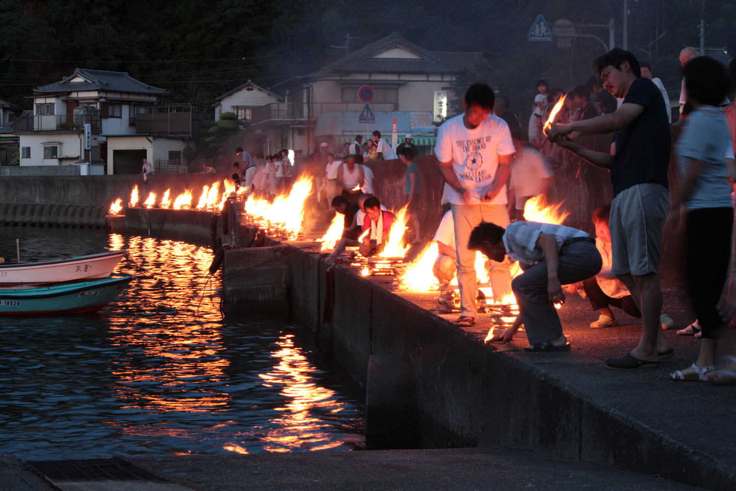 Mukaebi of the Bon Festival. Taken in Numazu, Shizuoka Prefecture, Japan.